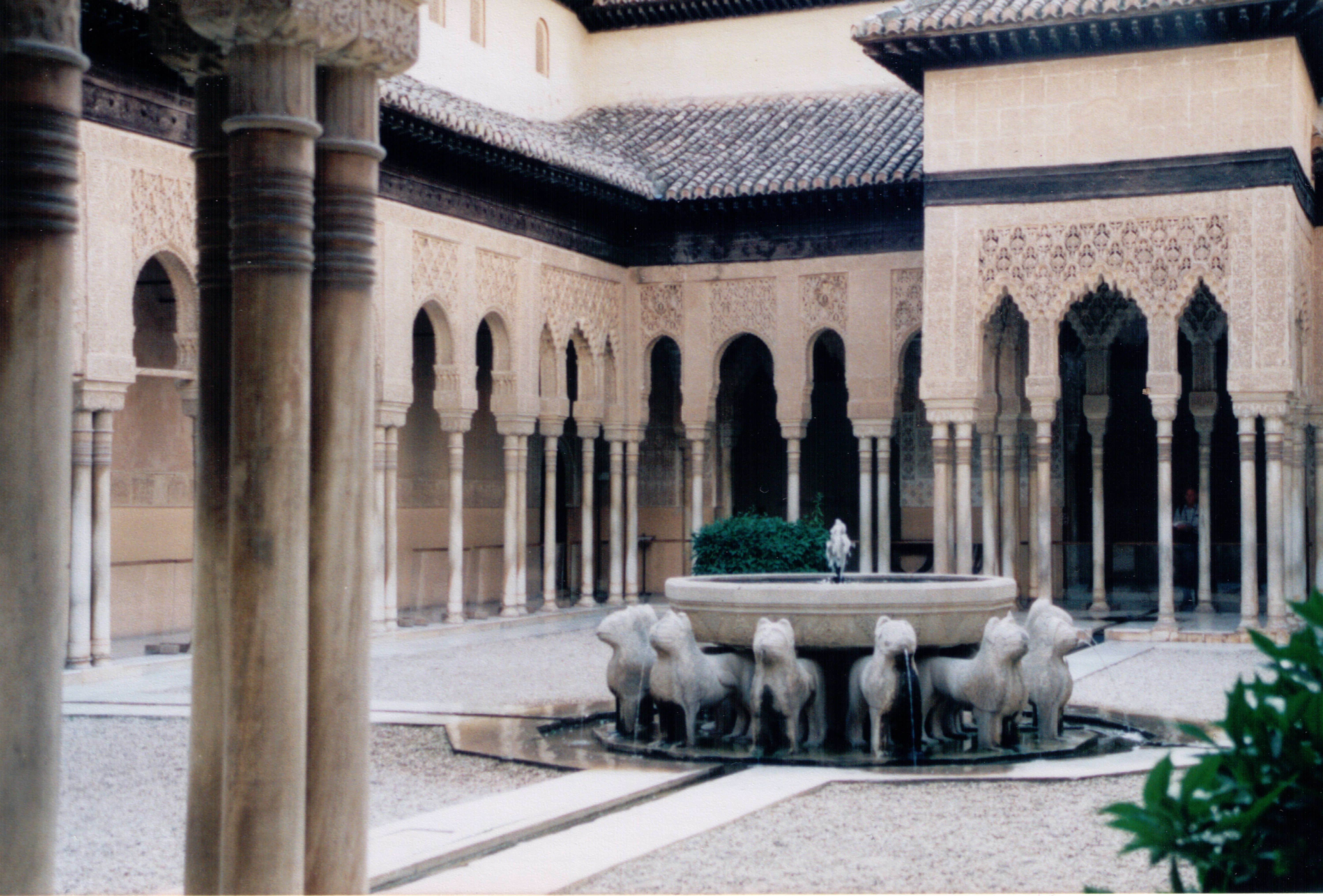 Transferred from de.wikipedia to Commons. The original description page was here. All following user names refer to de.wikipedia. Innenhof der Alhambra (Patio de Leones)